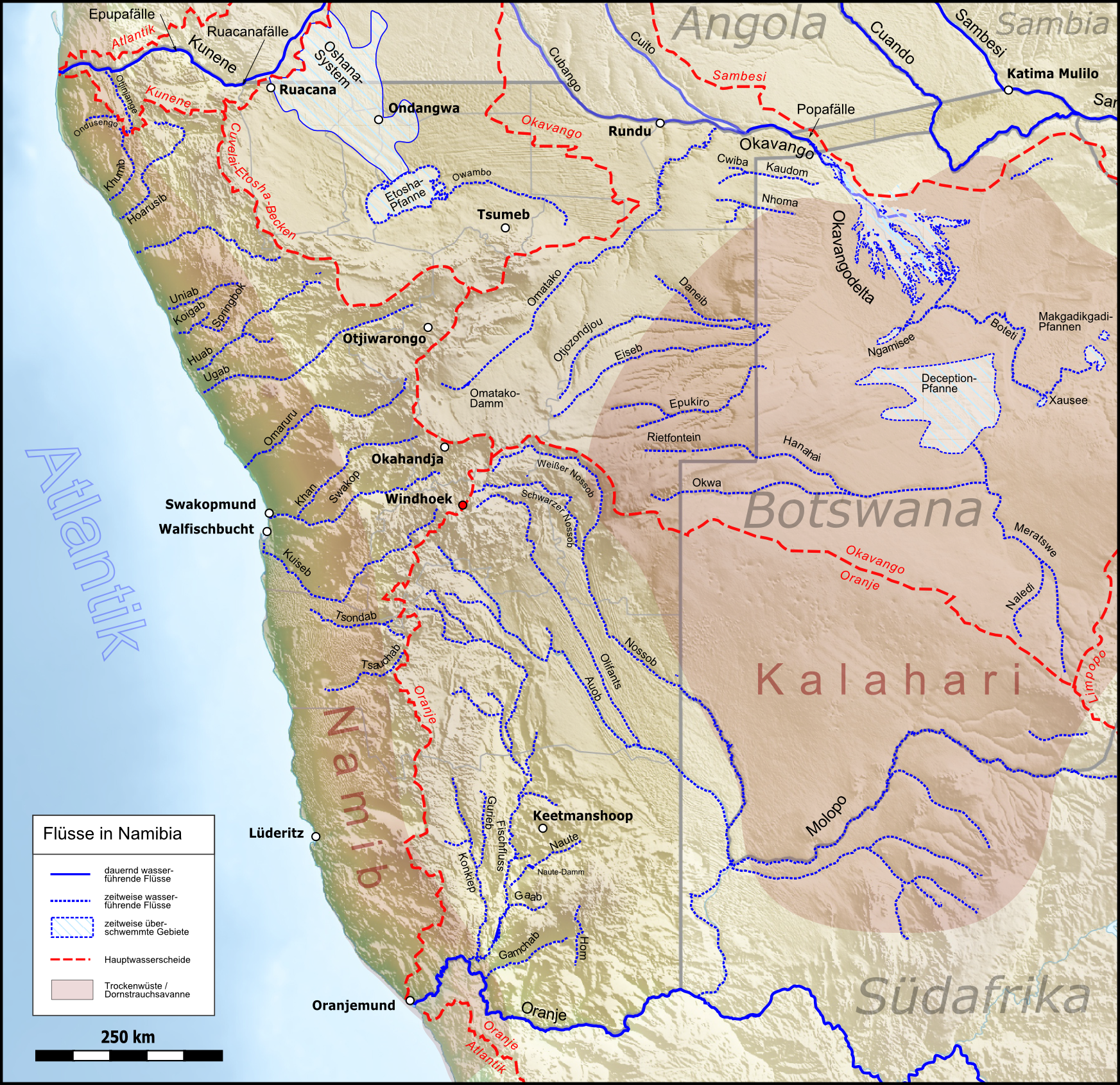 Rivers in Namibia, index in German, pyhsical map